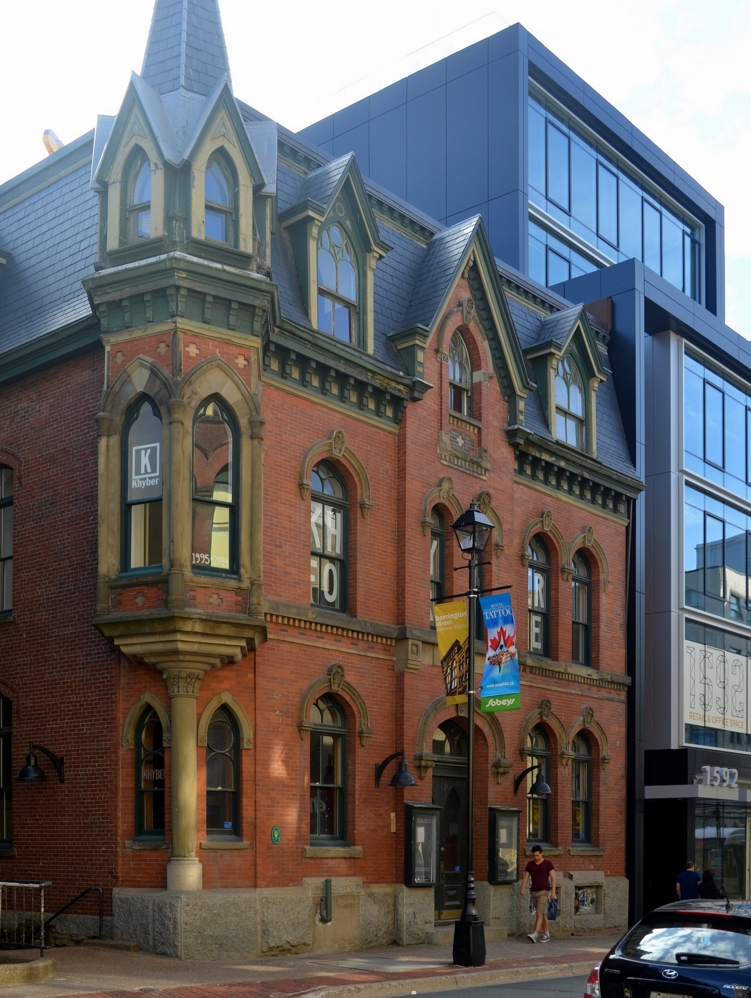 The Khyber Club, Halifax, on Barrington Street.